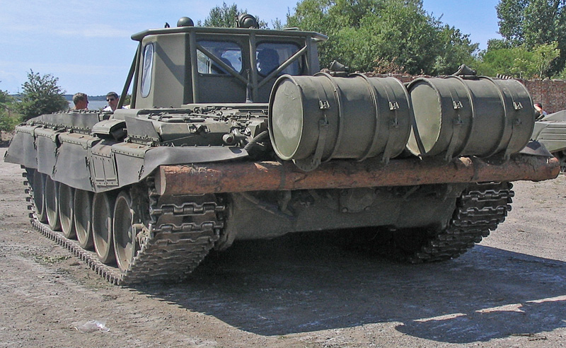 tank version specially build for driving school